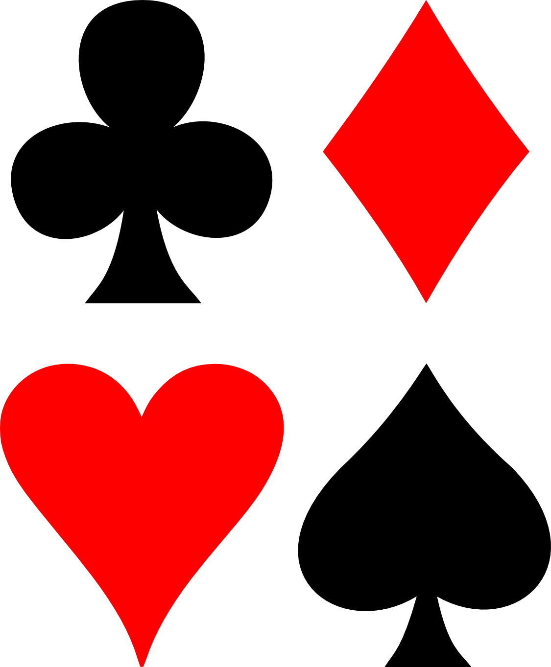 Anglo-American card suits: clubs, diamonds, hearts and spades.